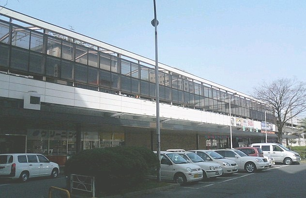 Saga Station (South exit), Nagasaki Main Line, Kyushu Railway Company.